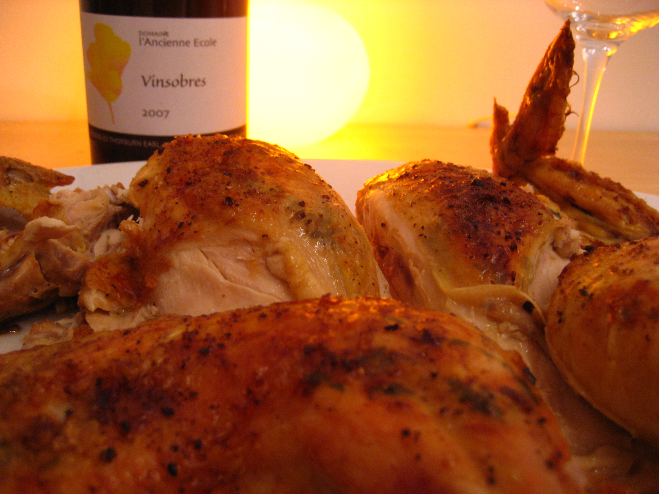 Roast chicken and Vinsobres